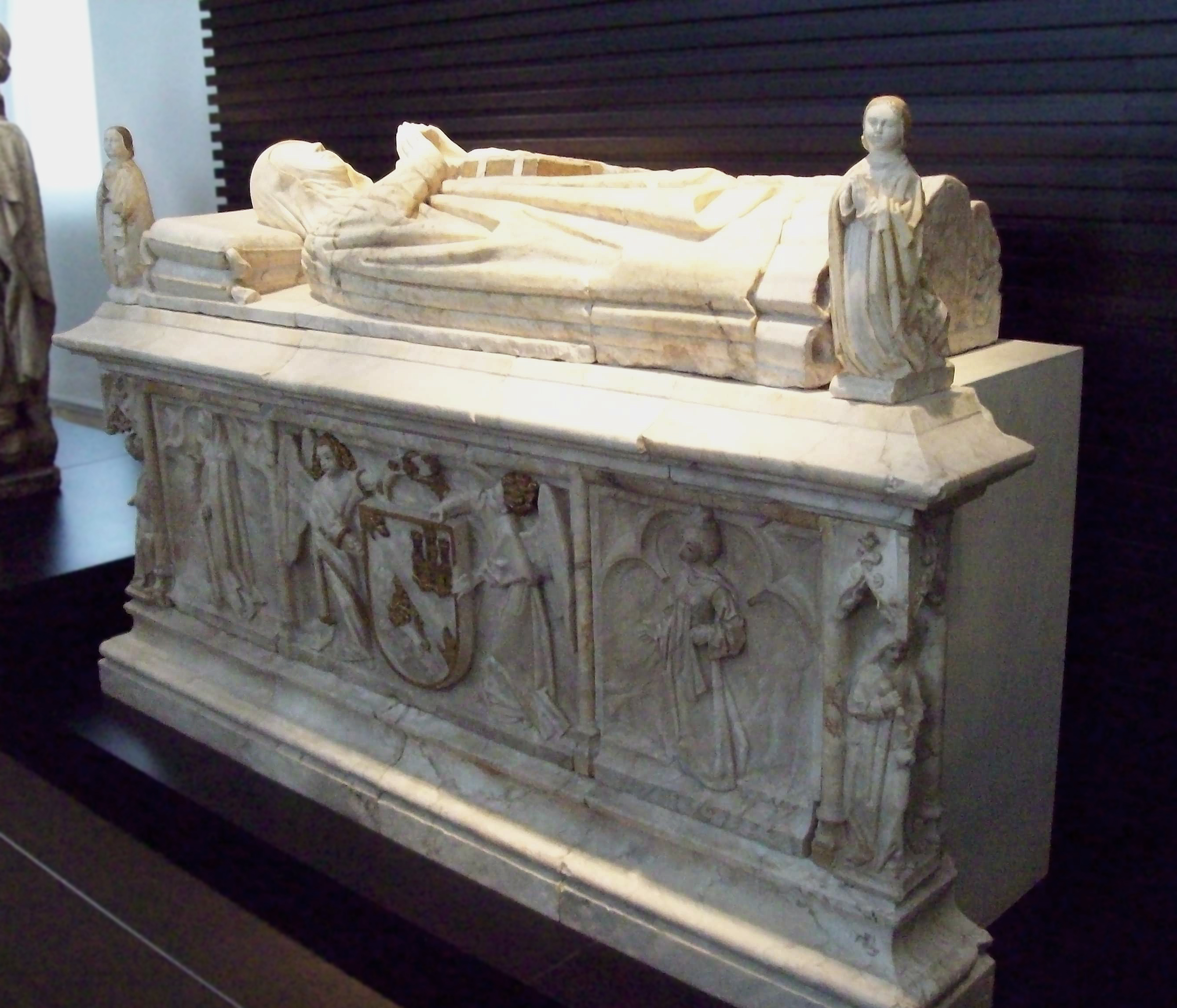 Sarcophagus of Constance of Castile Eril (before 1405–1478), granddaughter of Peter I.